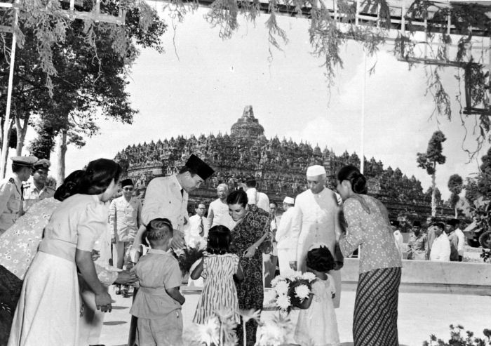 President Soekarno and the Indian prime minister Nehru watching Indira Gandhi receiving flowers during a visit to the Borobudur